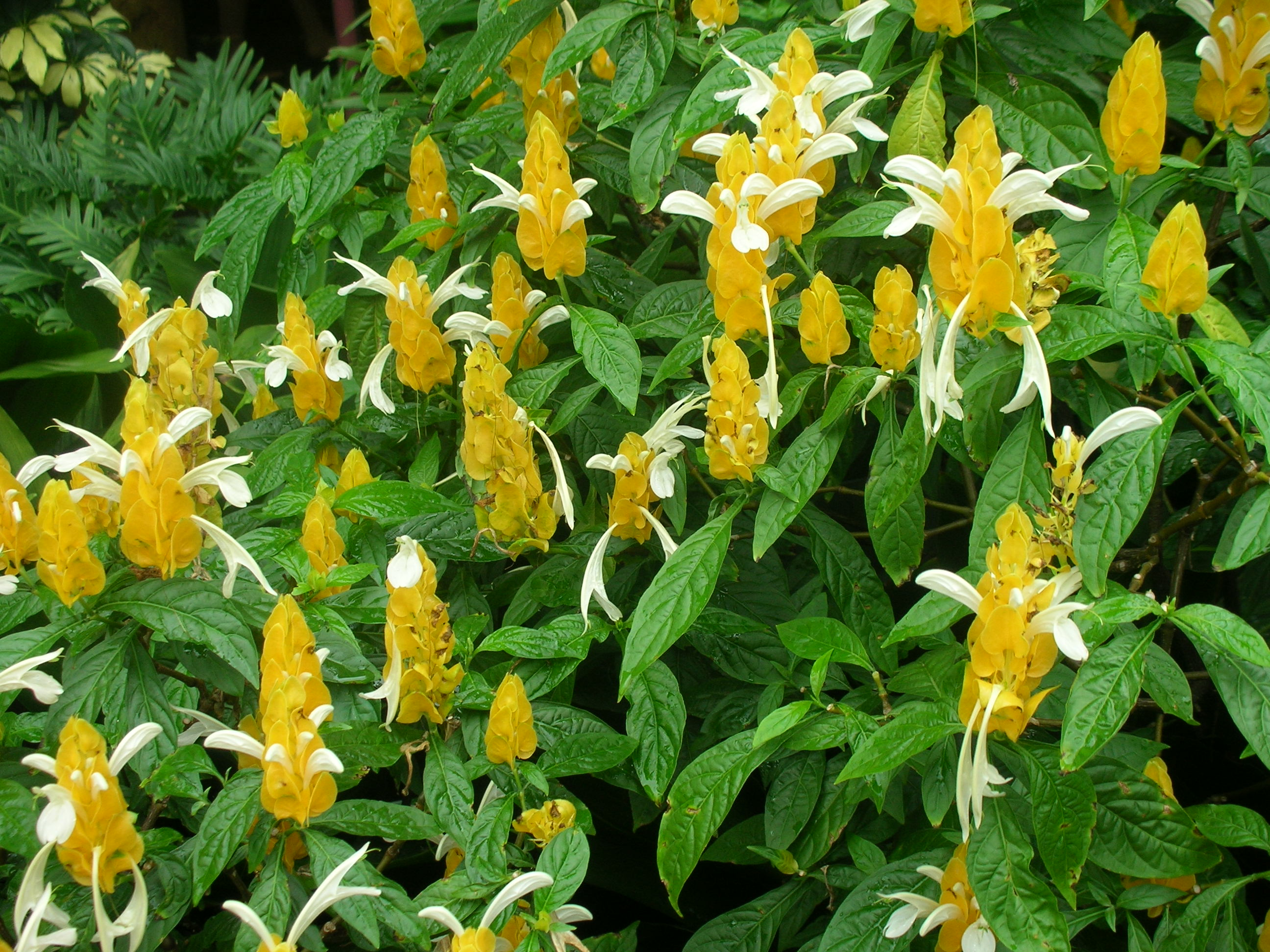 Pachystachys lutea in Orlando, Florida